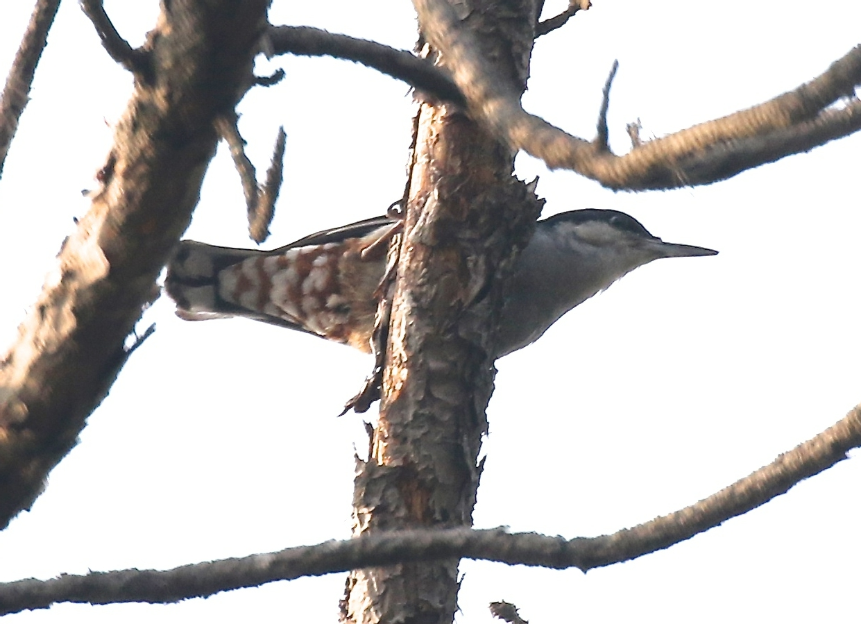 Doi Ang Khang Mountain - Thailand